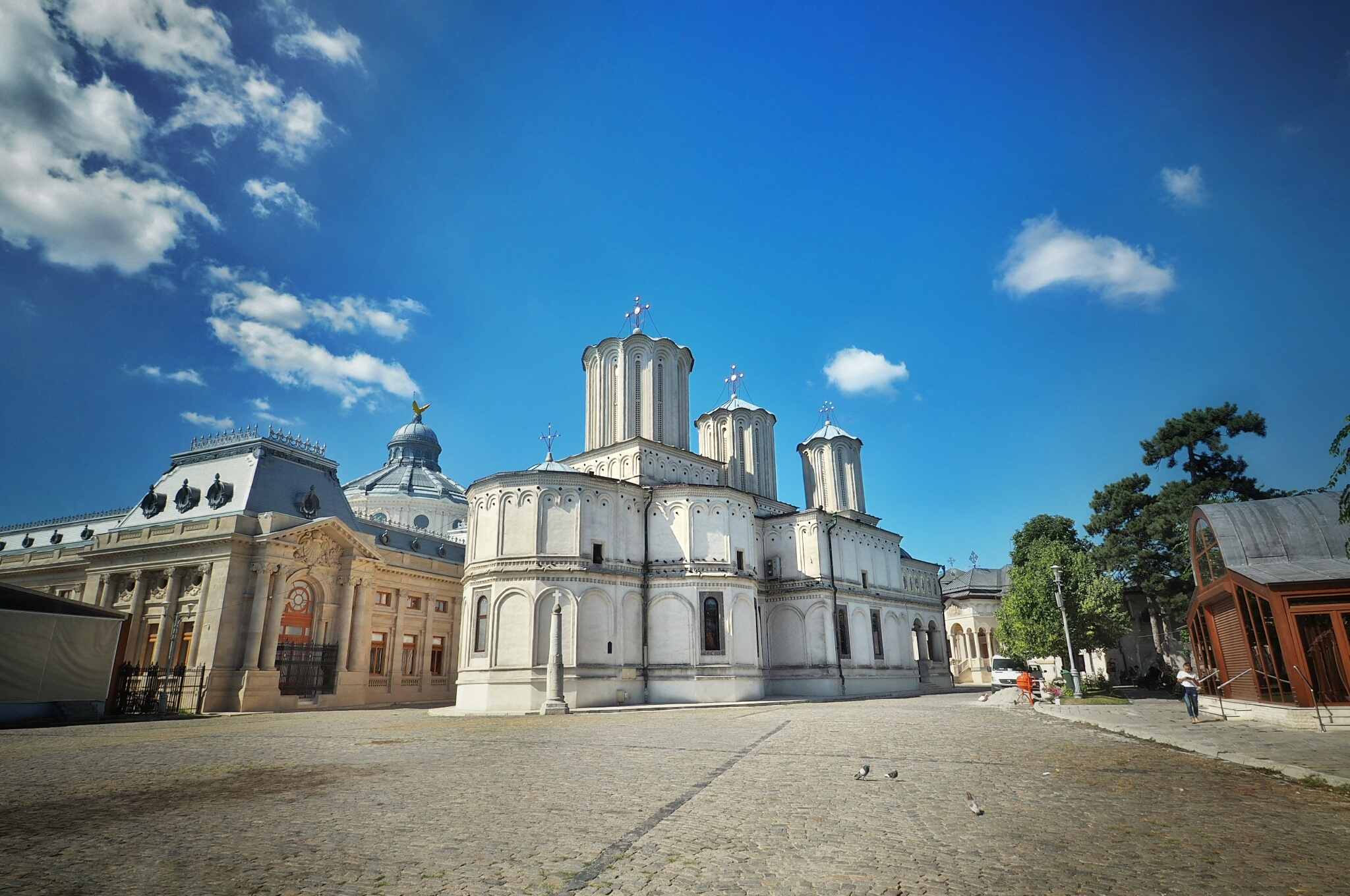 Bucharest, Romania Find out more about Bucharest: DiscoverBucharest